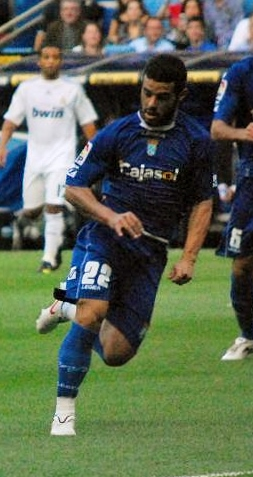 José Manuel Casado playing for Xerez, 20 September 2009